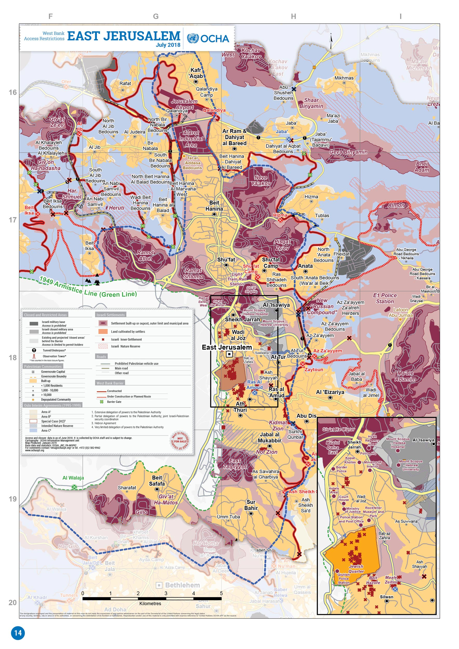 2018 OCHA OpT map